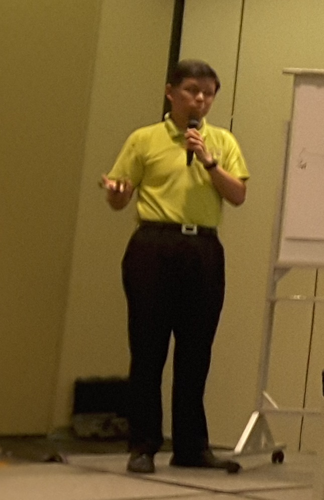 Minister Chan Chun Sing at e2i giving a pep talk